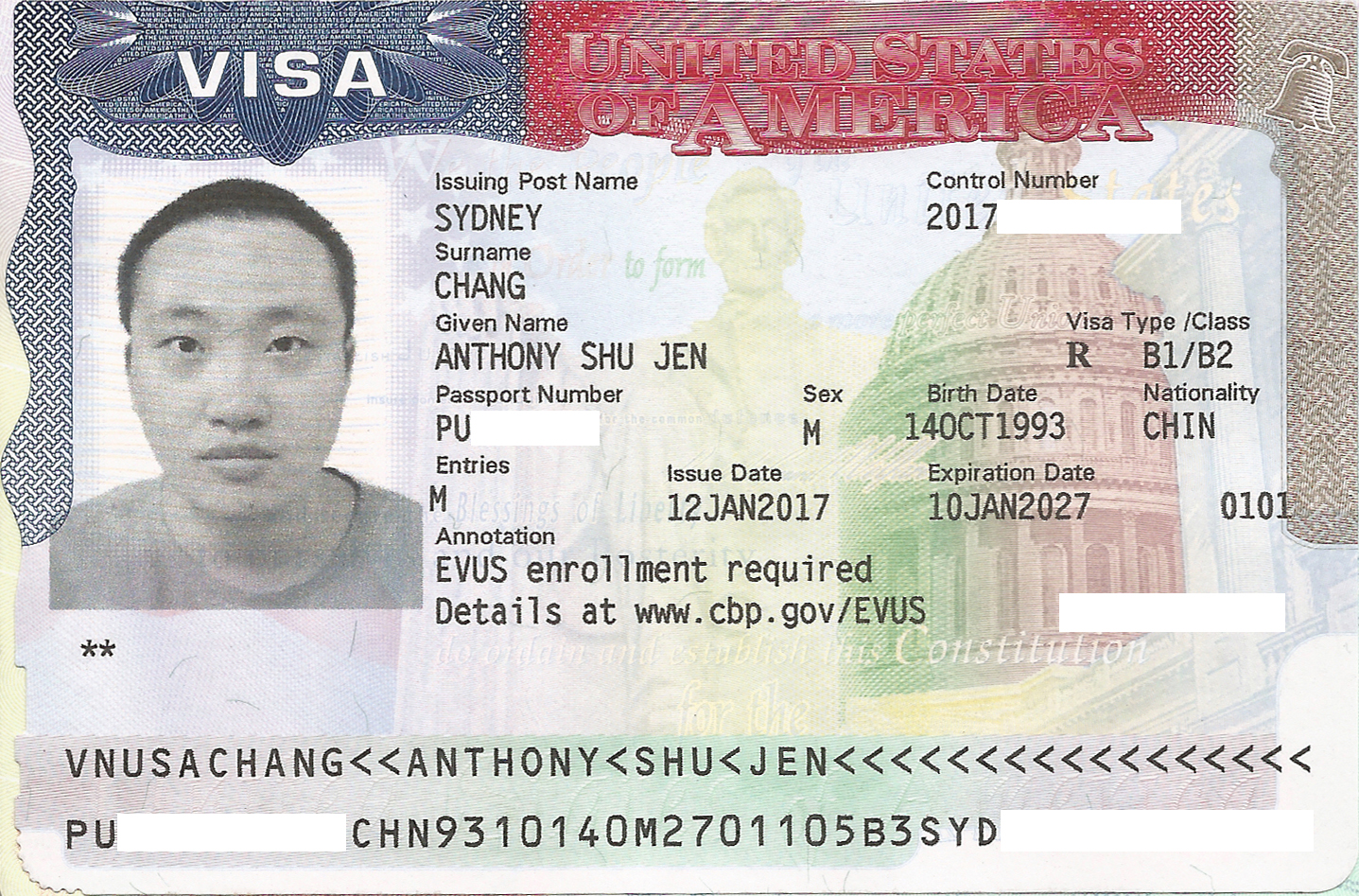 A 10-year United States B visa issued to a Chinese citizen. The annotation indicates that Electronic Visa Update System (EVUS) enrolment is needed before travel.